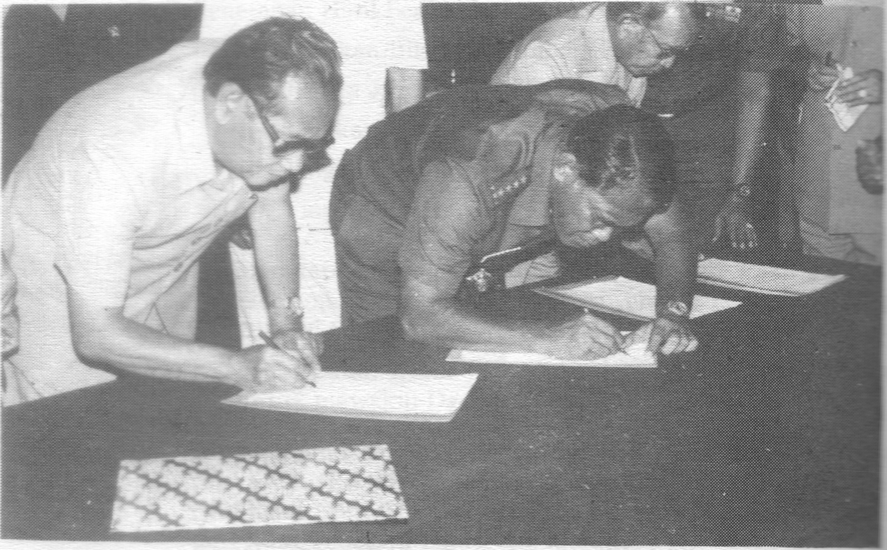 Members of the Indonesian Election Committee signs the official record of the meeting of the Determination of Election Results